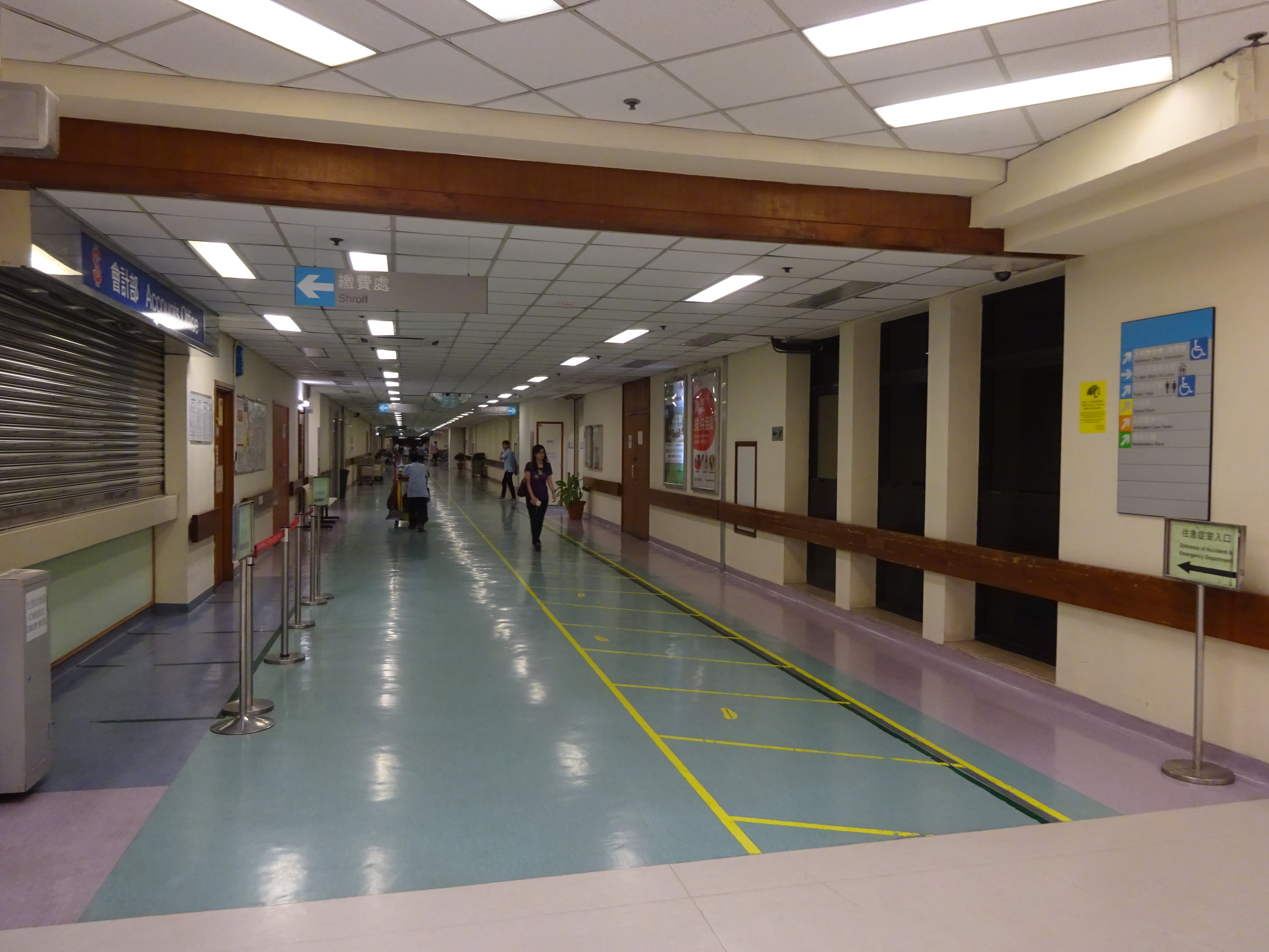 HK 屯門醫院 Tuen Mun Hospital in July 2016